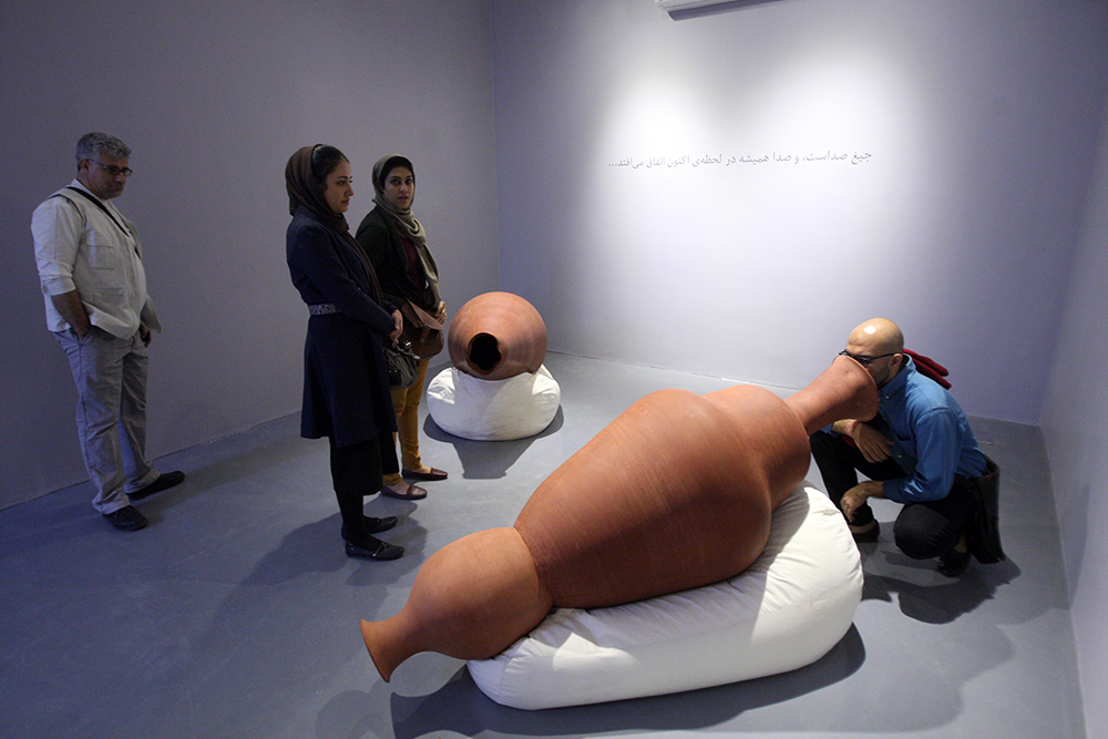 "Of Labor, Of Dirt", Babak Golkar, Oct 2014